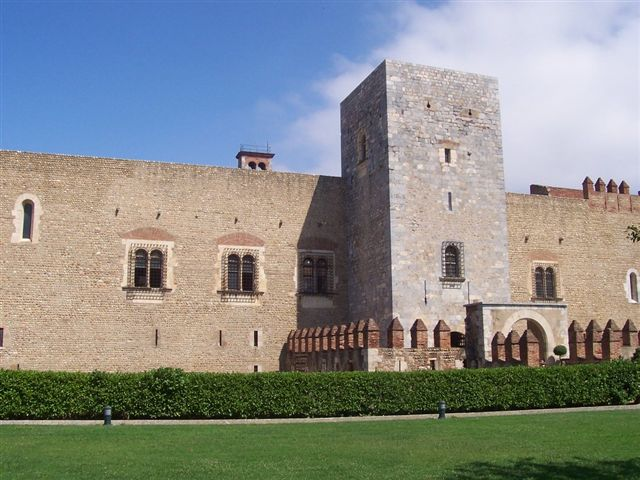 Kings of Majorca Palace - Perpinyà